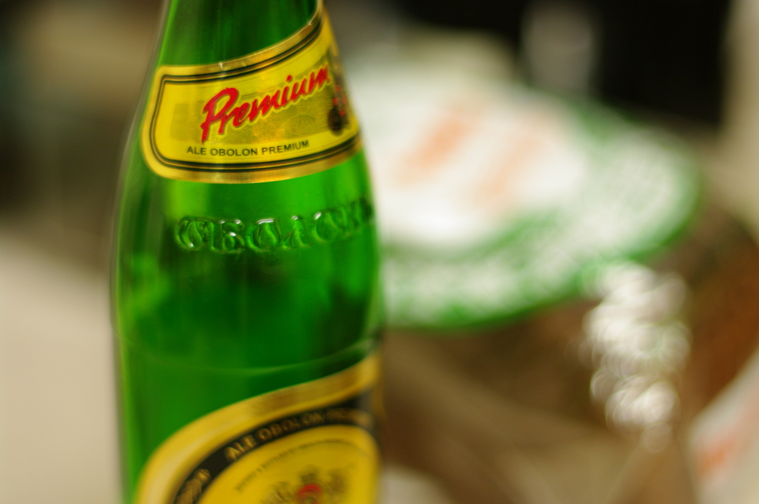 Mandi picked up bottles of Obolon Premium and Lager at the Russian deli in Rockville. Good stuff.